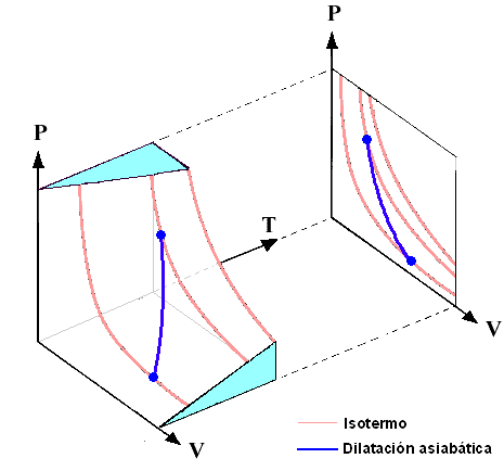 Thermodynamic diagram